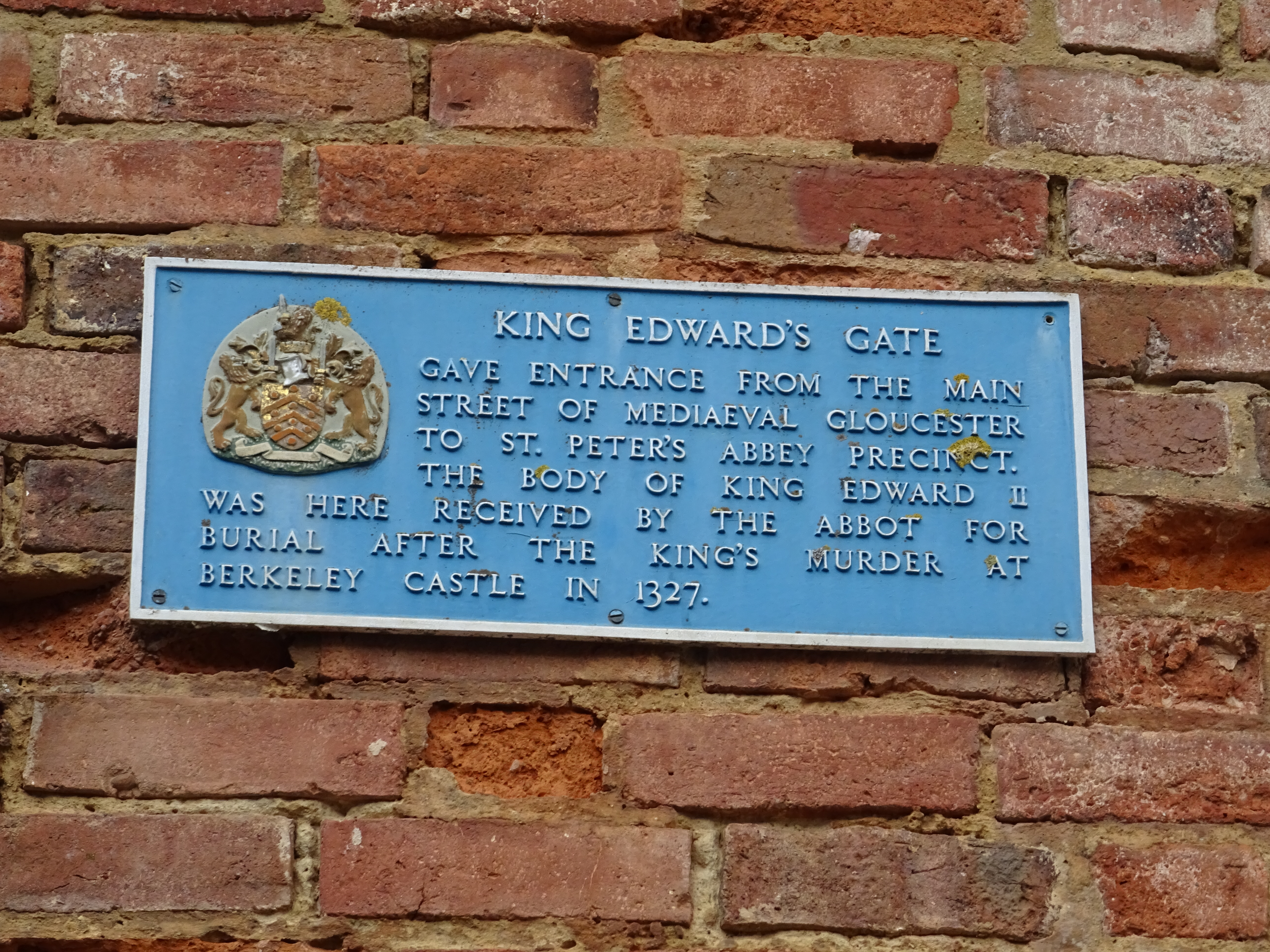 This is a photograph of the sign at Edward's Gate.